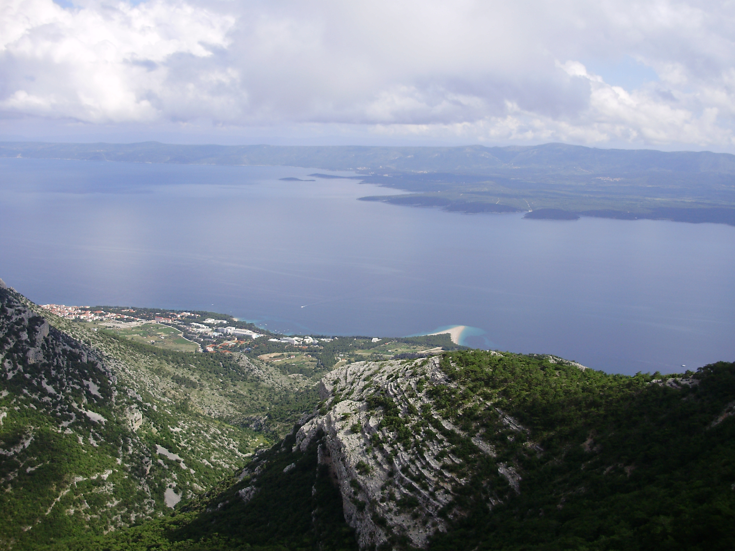 The town of Bol on the Croatian island of Brac. Seen from Vidova Gora(Mount St. Vid). This is the highest peak of the Adriatic islands at 780 meters above sea level.